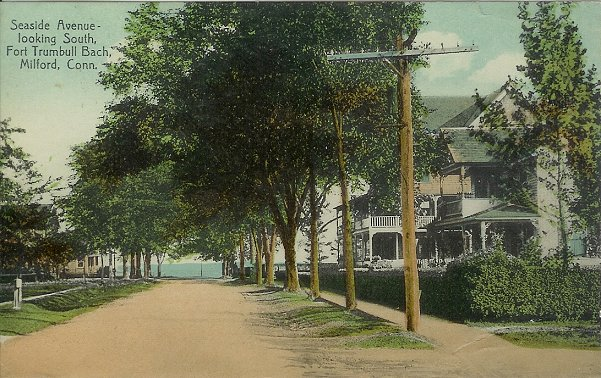 Caption: "Seaside Avenue, looking south; Fort Trumbull Bach [Beach?], Milford, Conn." From eBay store Web page: "1911 Postcard - Seaside Ave - Fort Trumbull Milford CT"